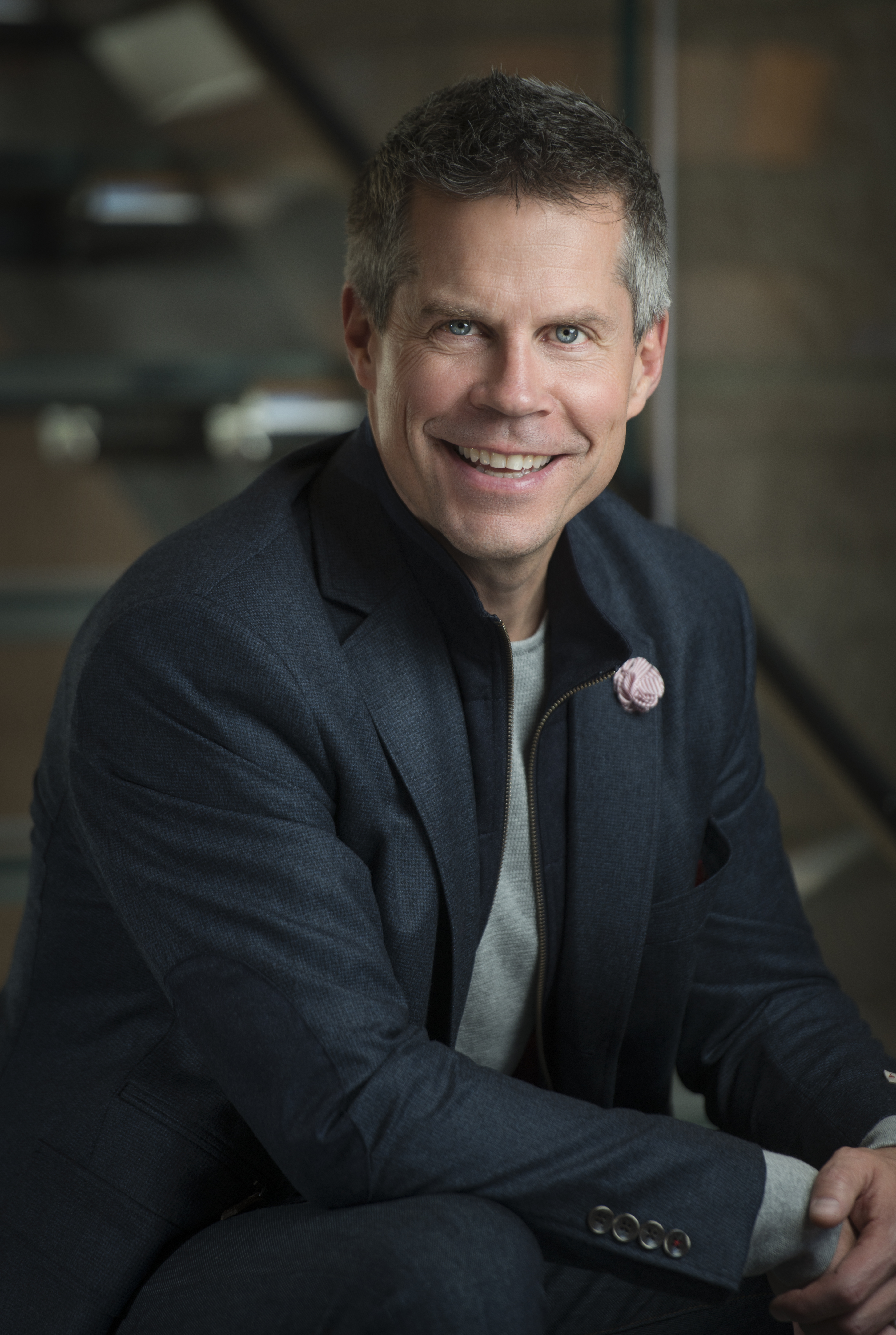 Dave Kelly, 2019.